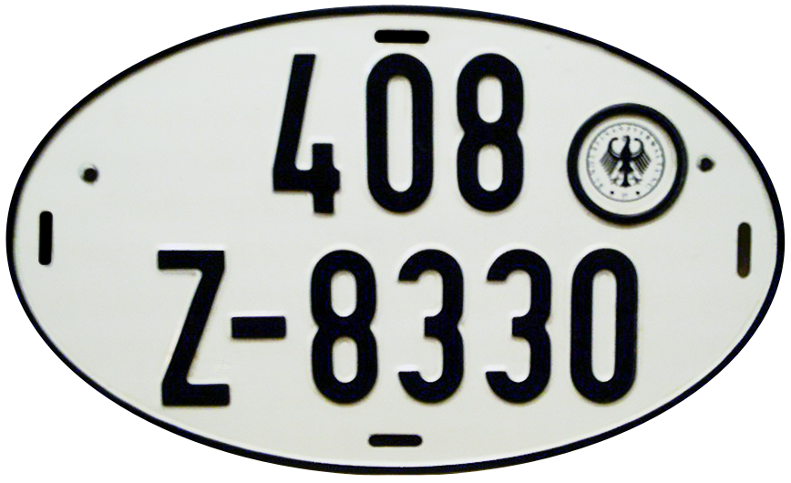 License plate of Germany for export vehicles, Ausfuhrkennzeichen (alt)